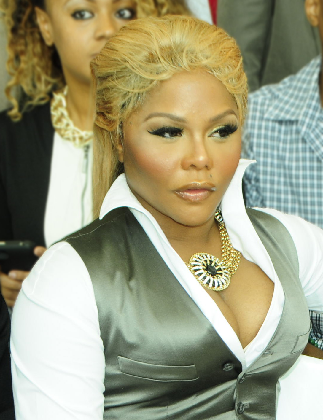 Lil kim Front Row at Mercedes Benz Fashion Week: Nina Skarra Show Produced by MVC Management Productions at Lincoln Center Sponsors for the event included Beautiful Planning Marketing & PR , SoftSheen Carsons Dark & Lovely, Lamik Beauty, Katherine Lindman, Pink Rooster Studios, The Desbas Group, 3Eleven Creative, 1800 Coconut, Sign Expo, Keymanna Management, Fumi's Fashion Files & Brody & Branch LLP.